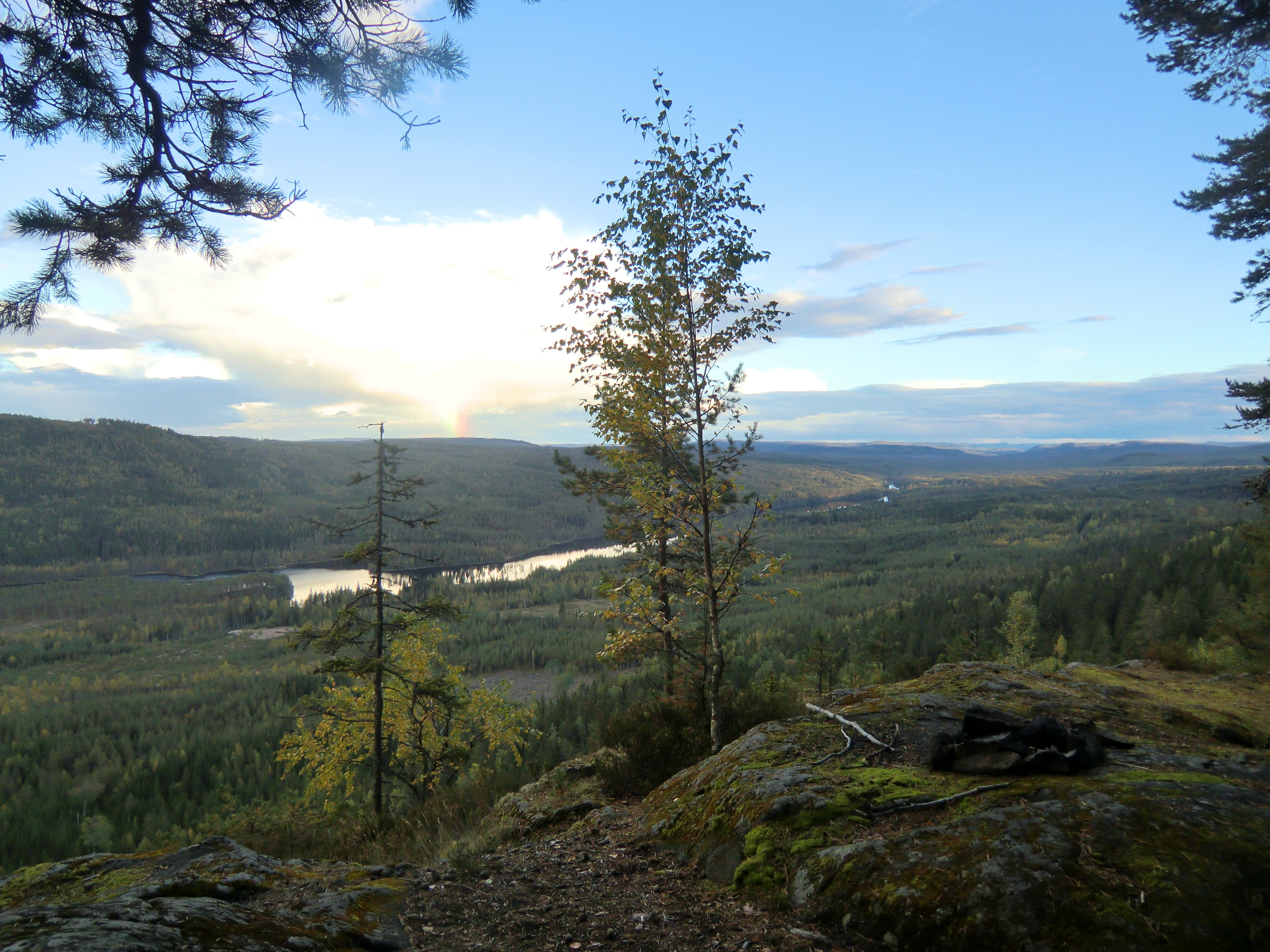 River Rotna in Norway at lake Rotnesjøen.